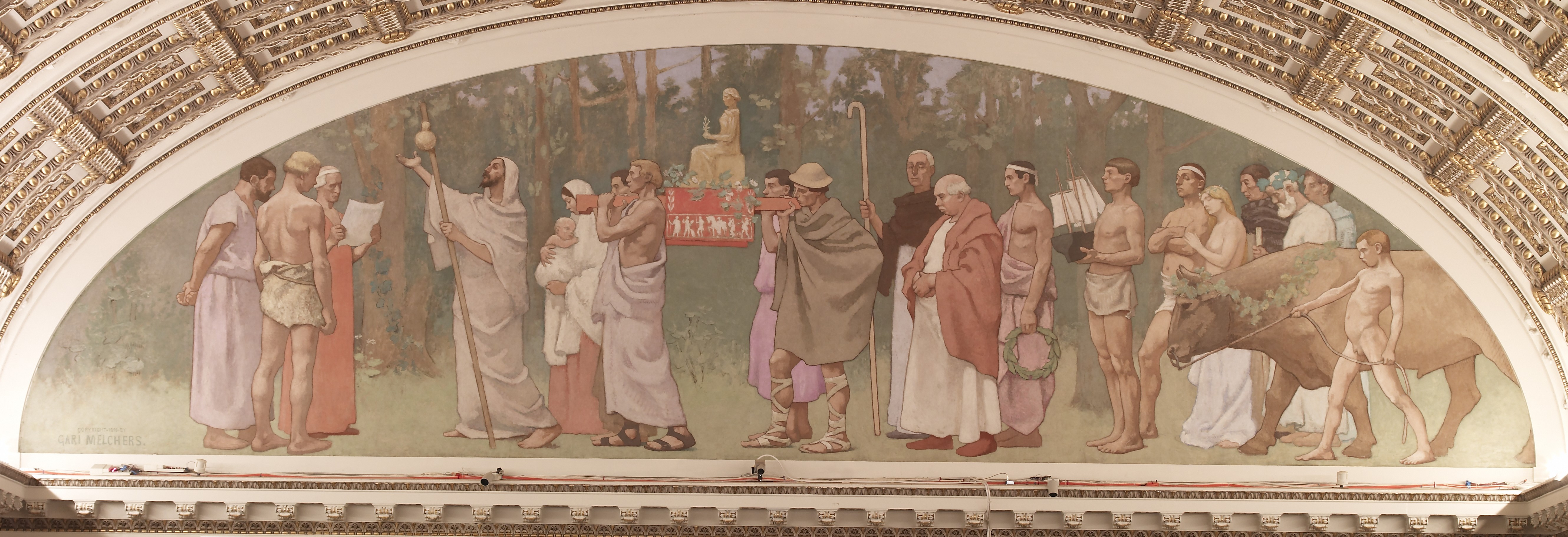 Second Floor, Northwest Gallery. Mural of Peace by Gari Melchers. Library of Congress Thomas Jefferson Building, Washington, D.C. Cropped from the Library of Congress digital version using the GIMP.